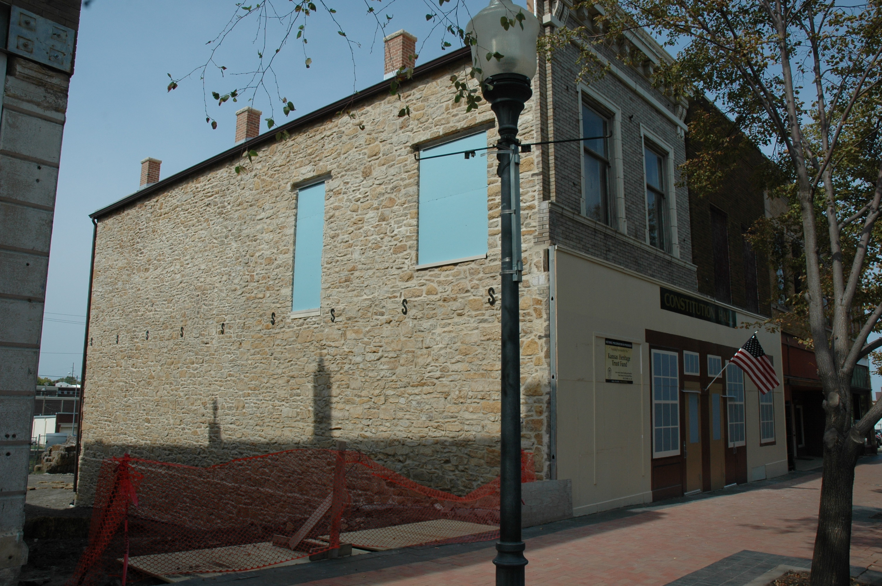 photo taken September 24, 2012 showing profile front of Constitution Hall-Topeka, looking northwest